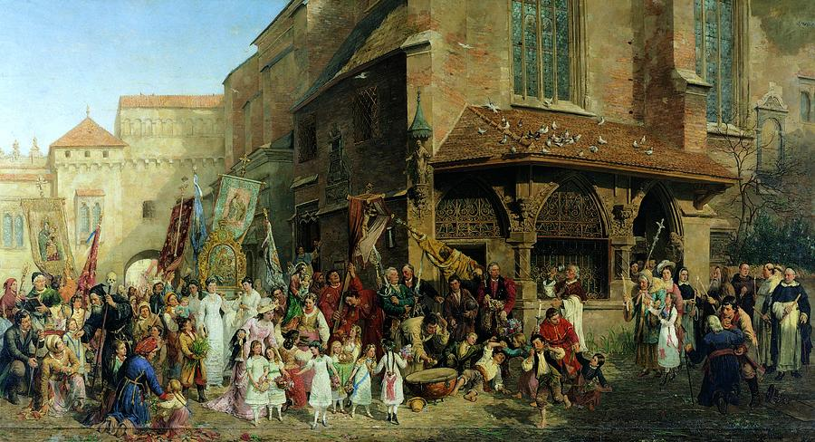 Corpus Christi Procession